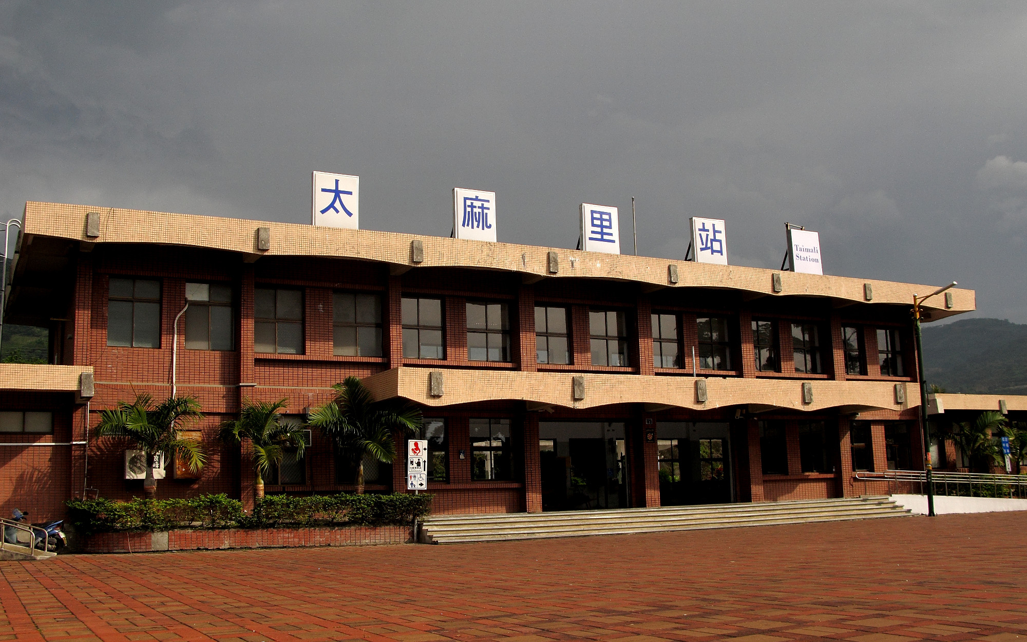 Taimali Station is a railway station of Taiwan Railway Administration South-Link Line located in Taimali Township, Taitung County, Taiwan.中文（中国大陆）: 太麻里车站是台湾铁路管理局南回线一座位于台湾台东县太麻里乡的车站。